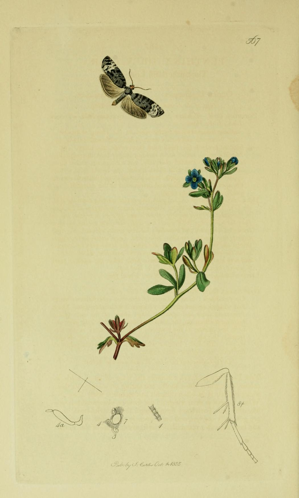 An illustration from British Entomology by John Curtis. Lepidoptera: Penthina grevillana or Apotomis sauciana grevillana (Sutherland Long-cloak, Greville’s Marble).